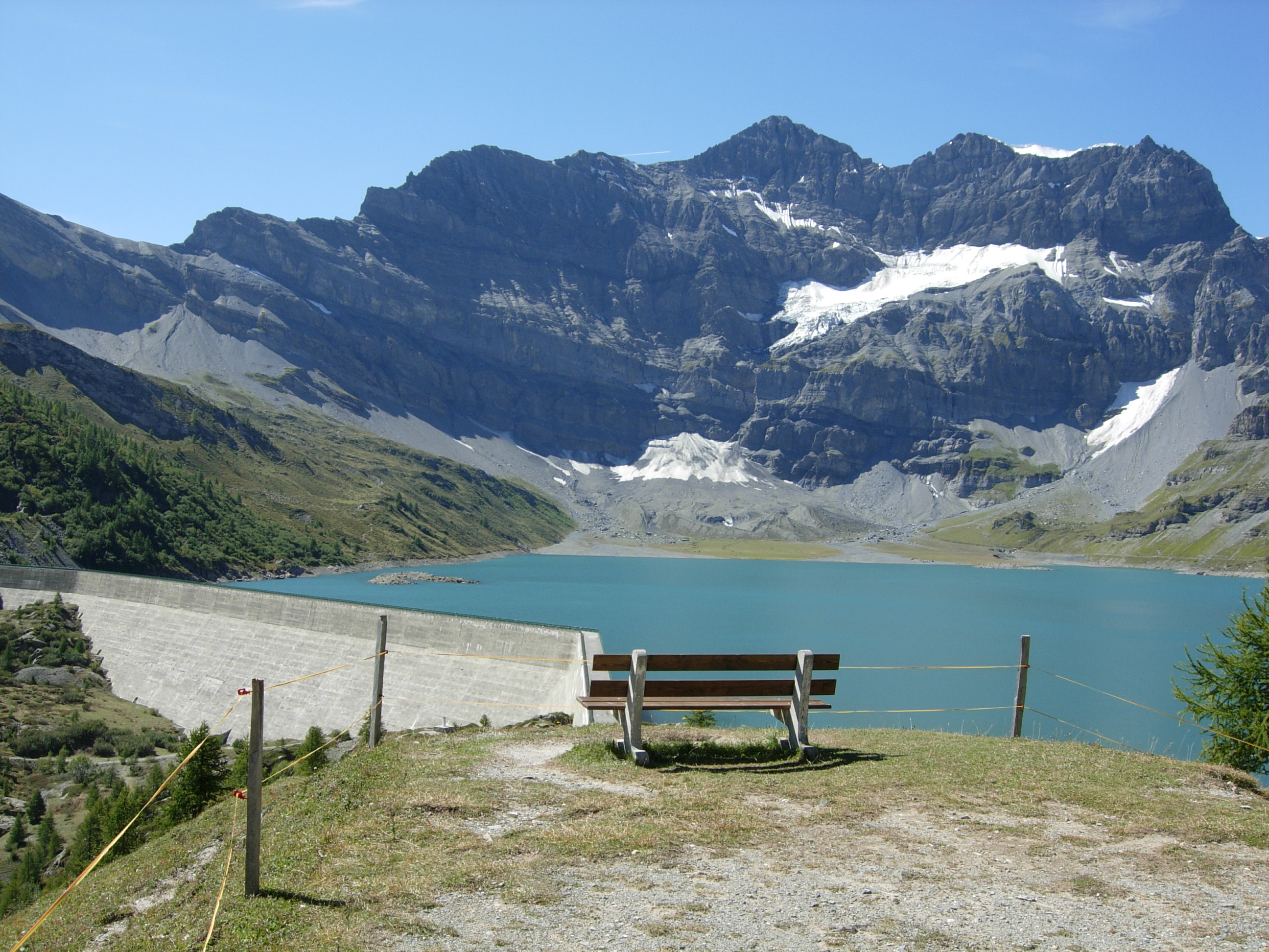 Tour Sallière et lac de Salanfe